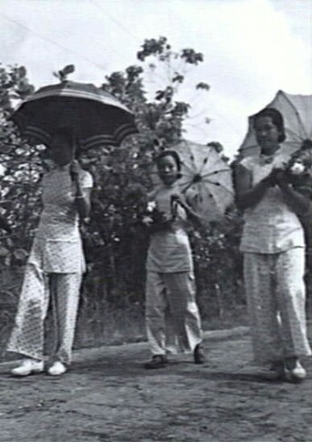 CHINESE GIRLS WALKING ALONG MACARTHUR ROAD ON THEIR WAY TO THE BRITISH BORNEO CIVIL AFFAIRS UNIT NATIVE COMPOUND AT THE SOUTHERN END OF THE ISLAND.